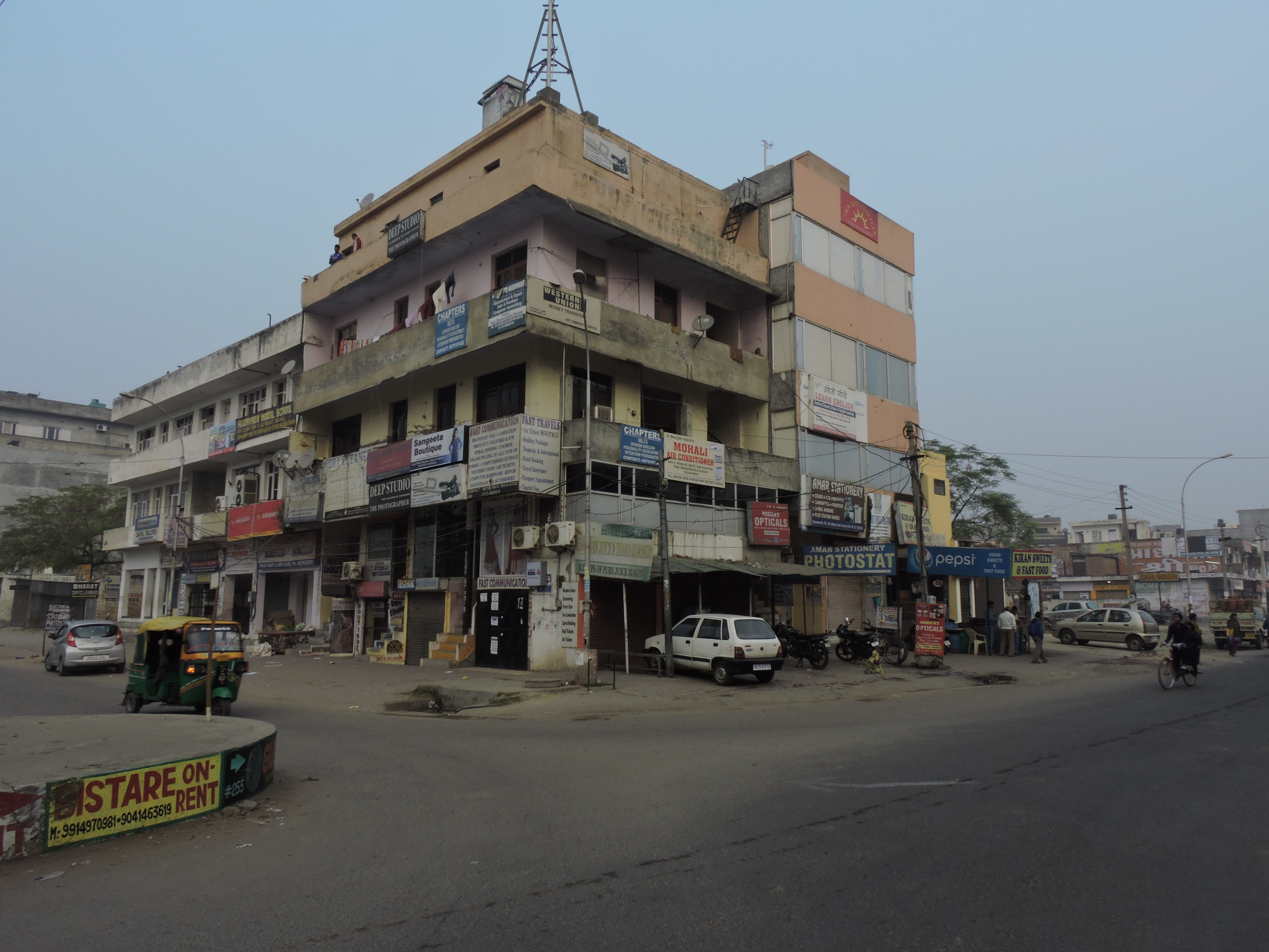 Mattaur village, district SAS Nagar ,Mohali, Punjab, India